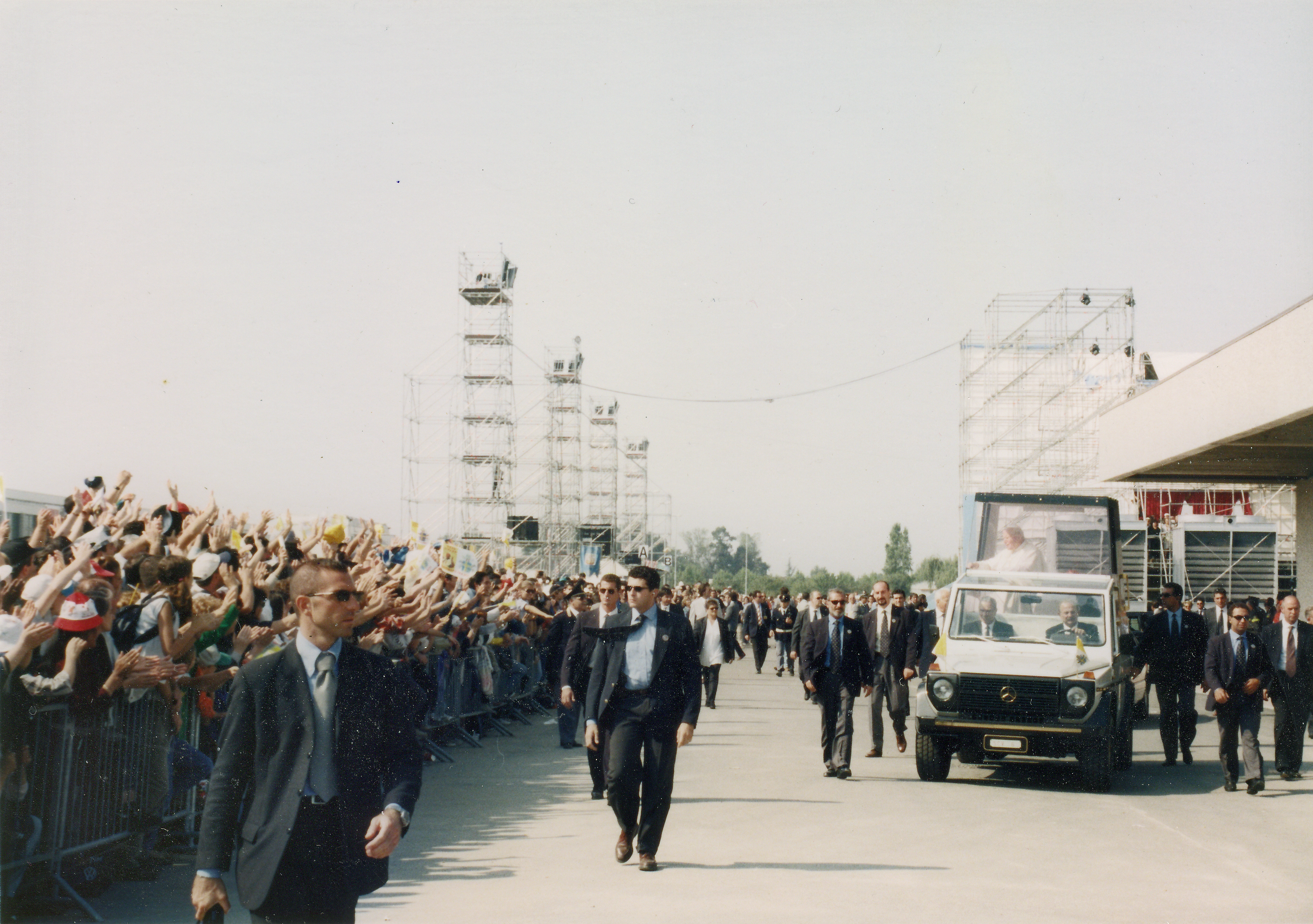 Pope John Paul II in Bologna, during the Great Jubilee in 2000